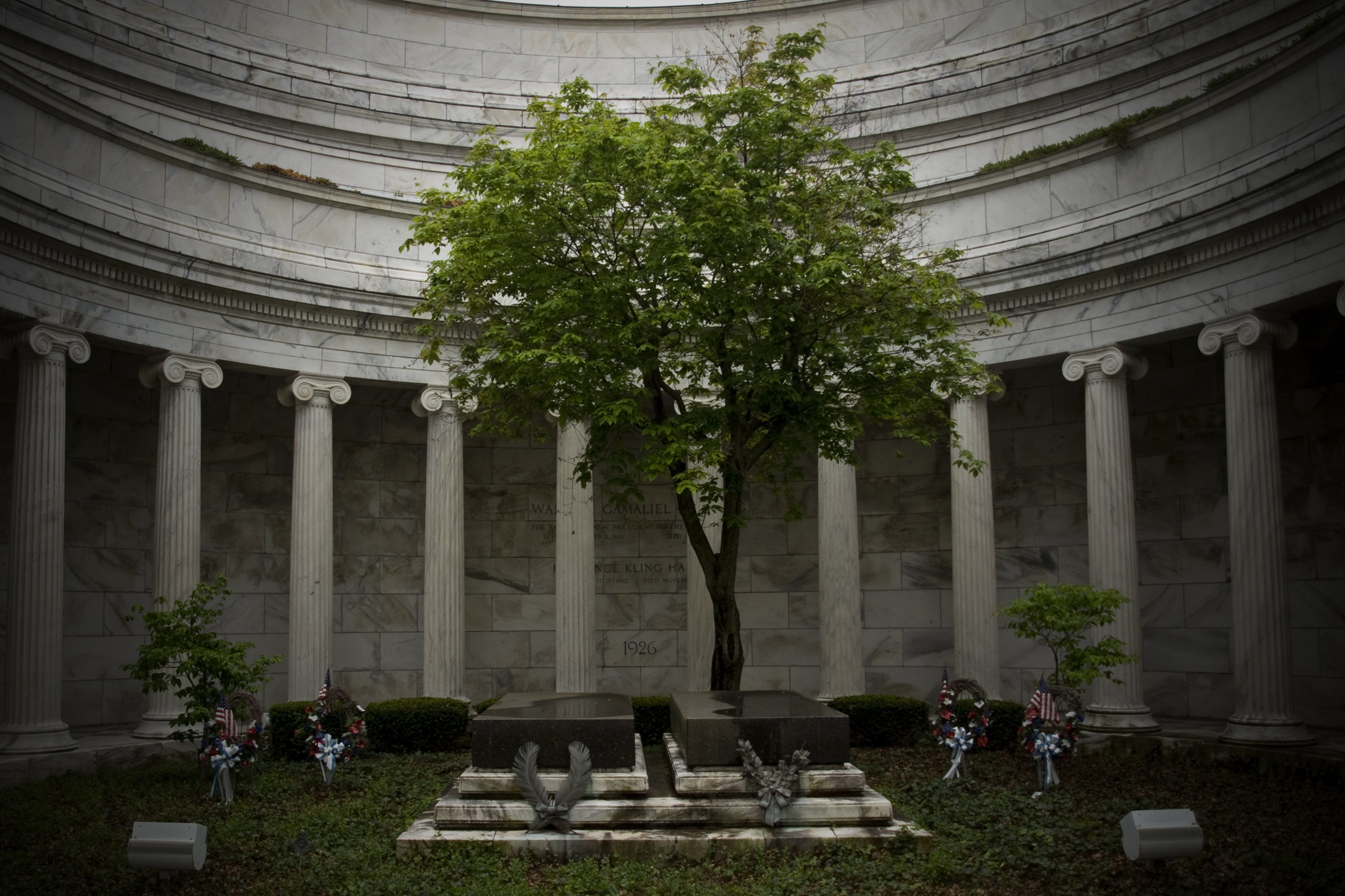 Harding Tomb, Marion Cemetery Marion